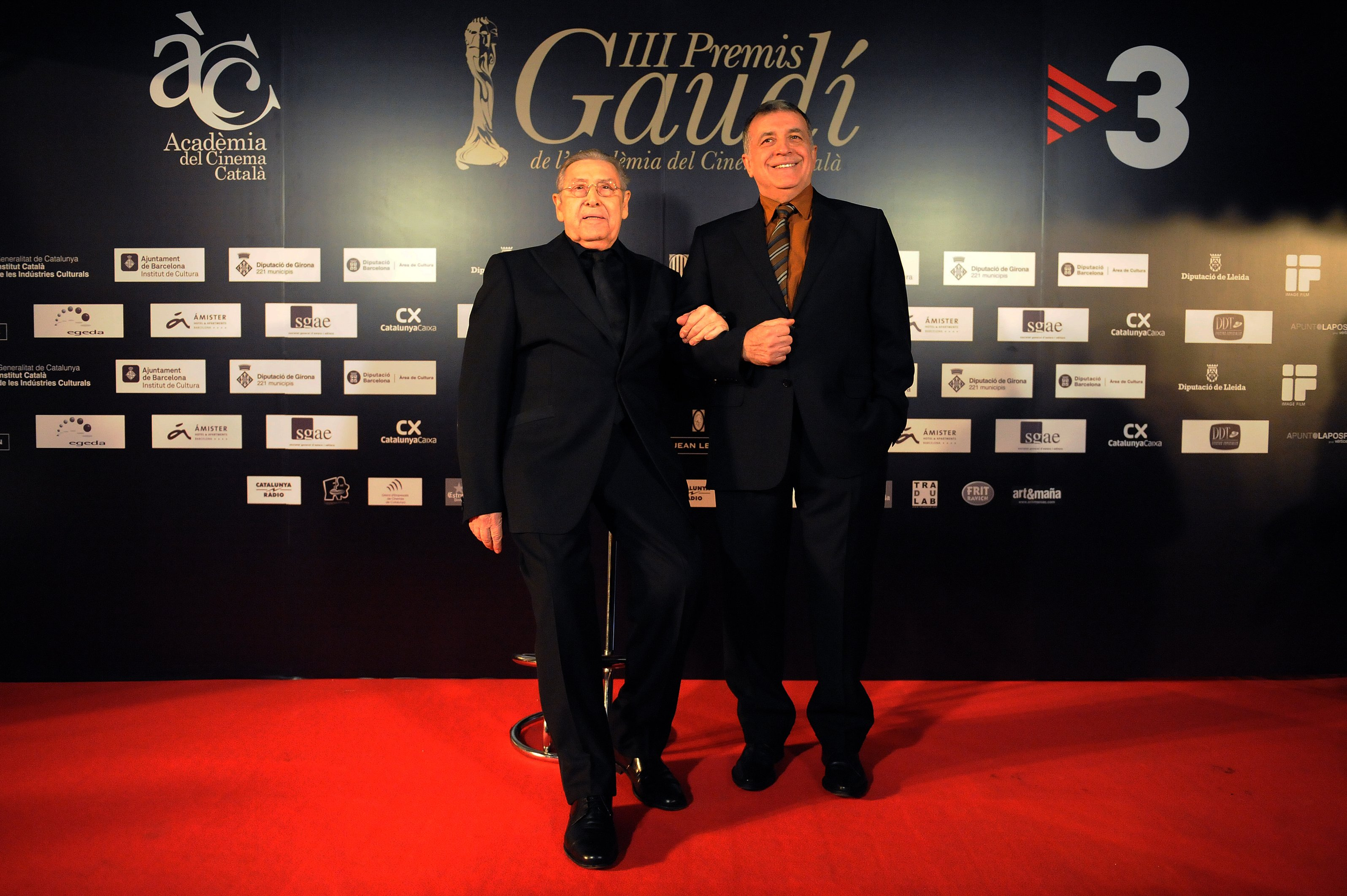 Photo of Jordi Dauder and Enric Majó in the soiree of Gaudí Awards 2011